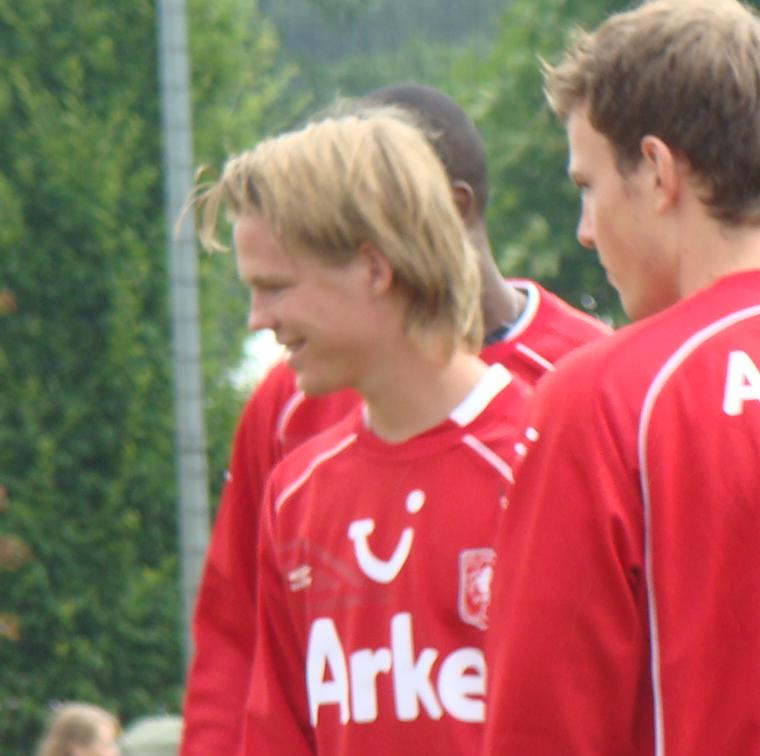 Image of the FC Twente-player Jules Reimerink